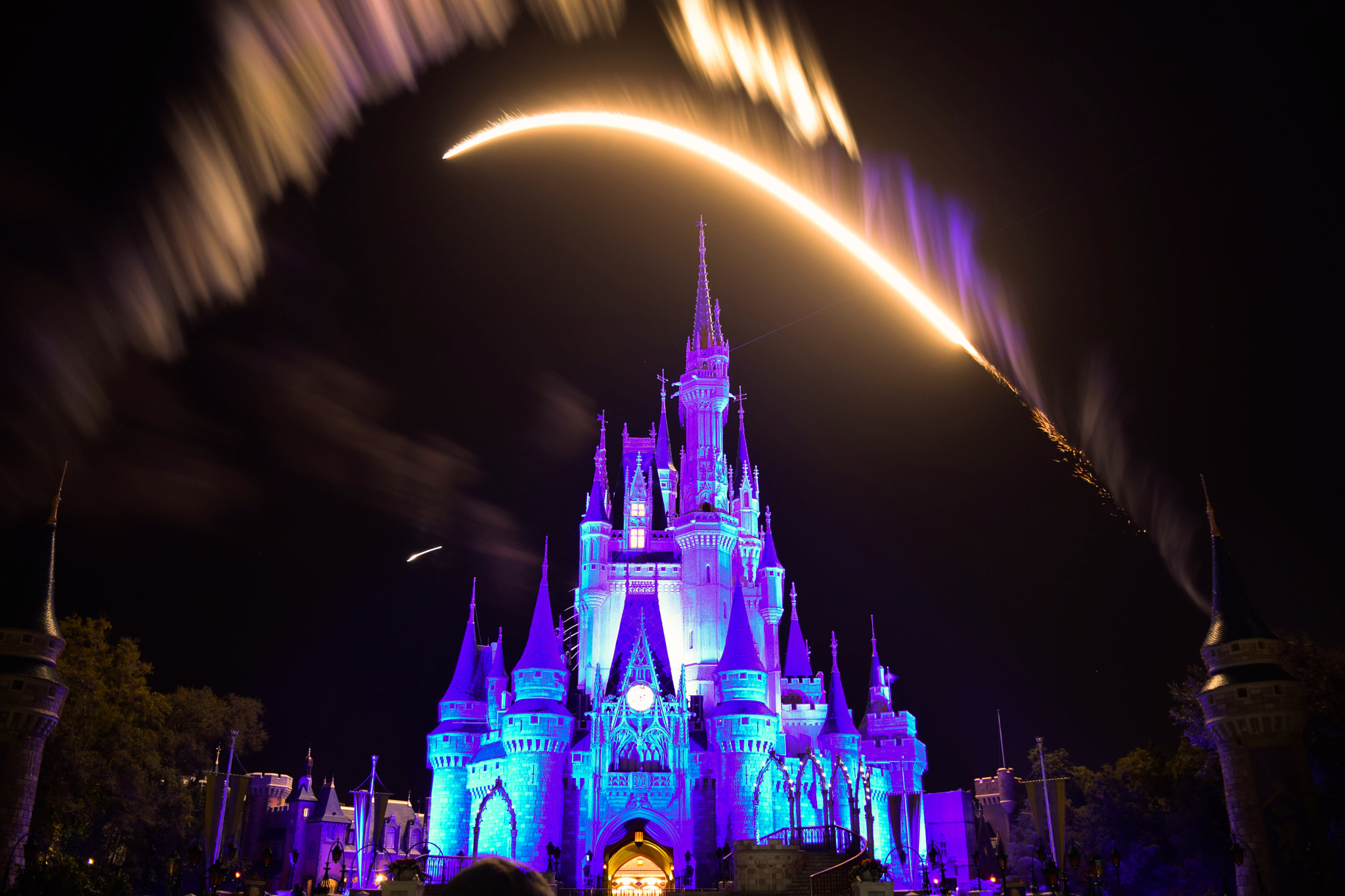 500px provided description: When You Wish Upon A Star [#travel ,#evening ,#kids ,#usa ,#castle ,#florida ,#america ,#illuminated ,#disney ,#fireworks ,#orlando ,#movies ,#shooting star ,#disneyworld]